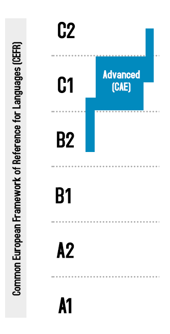 Comparison between the exam Cambridge